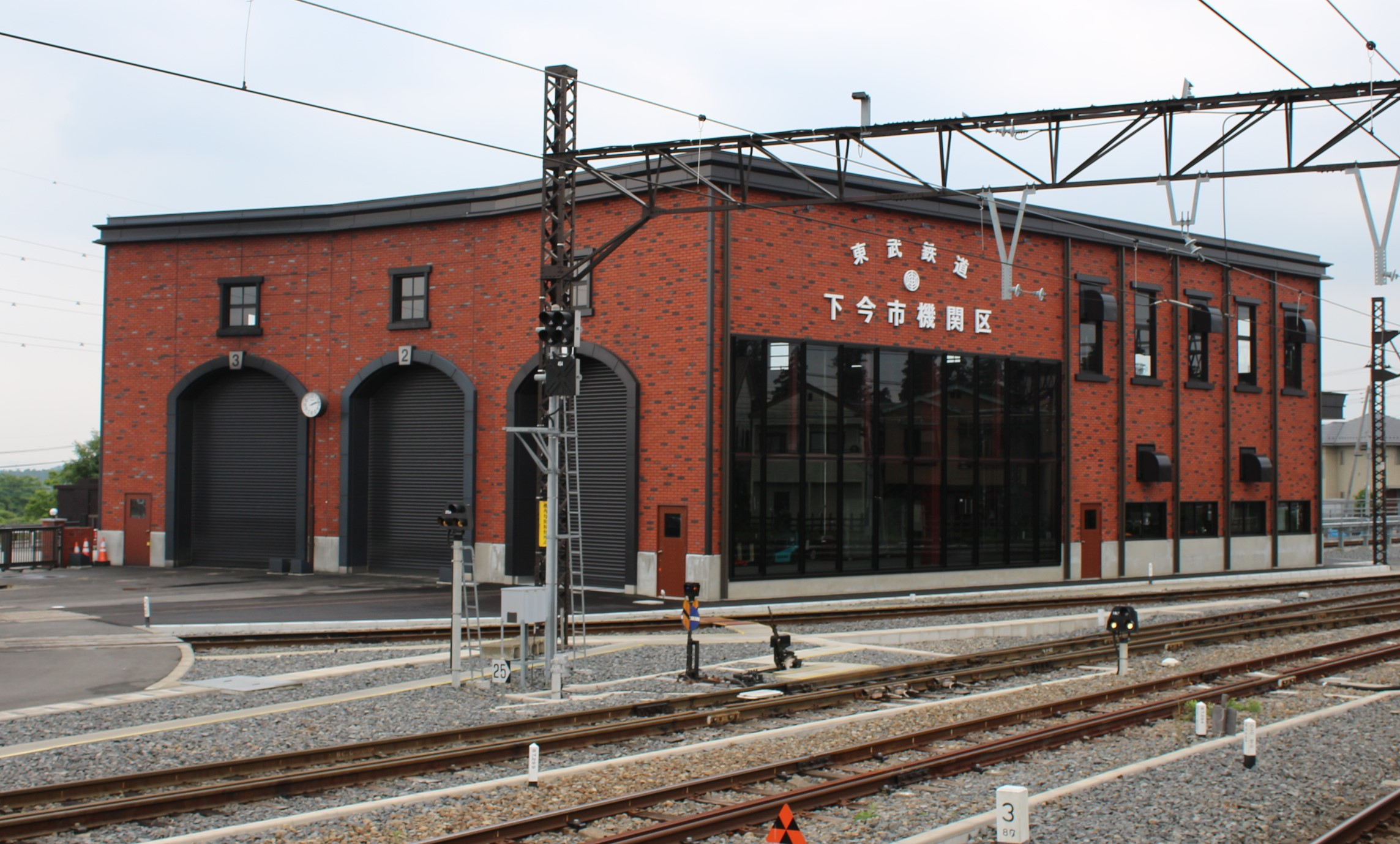 Engine shed at the Tobu Railway Shimo-Imaichi Locomotive Depot